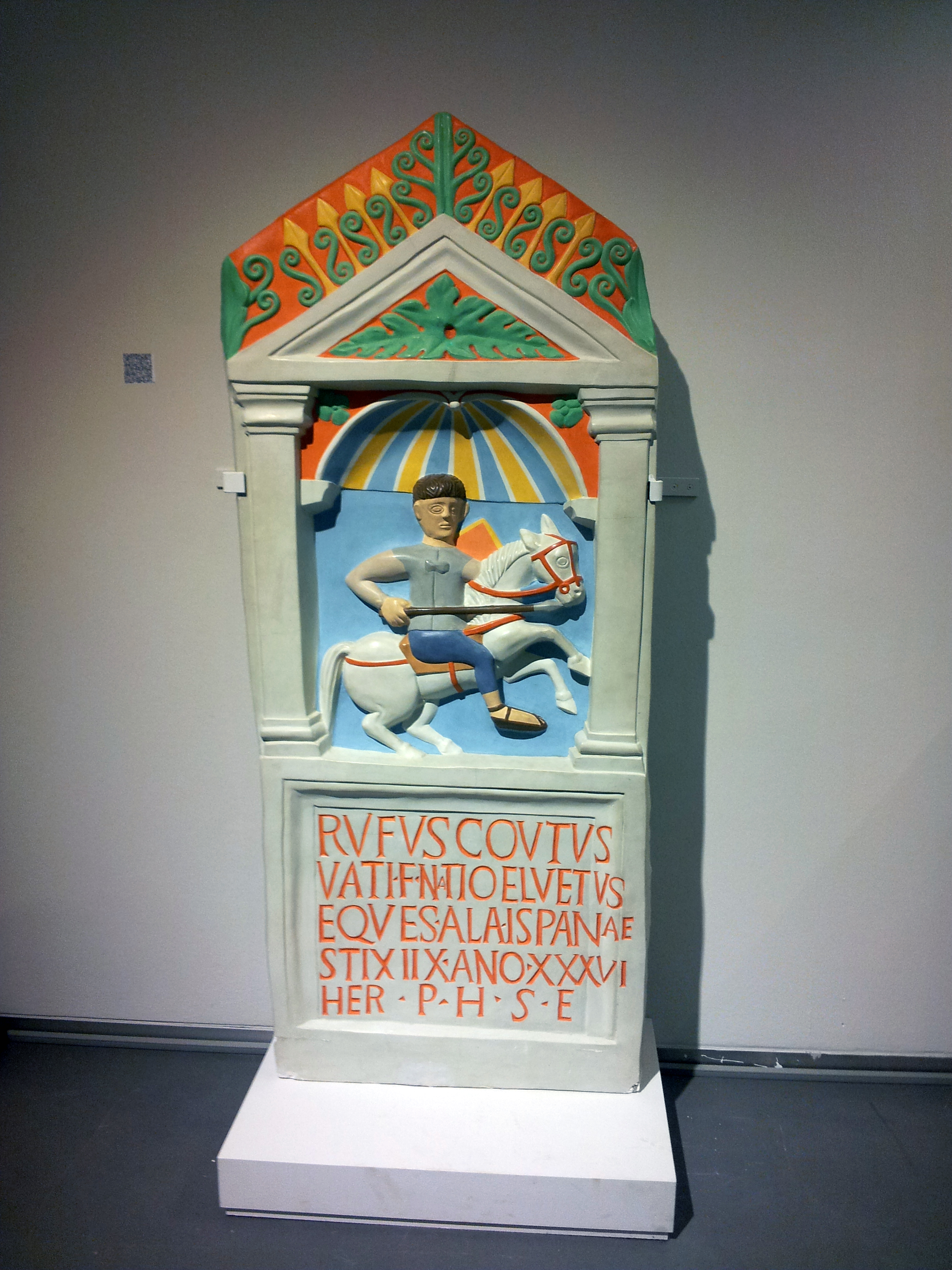 LVR-RömerMuseum Xanten - Exhibition